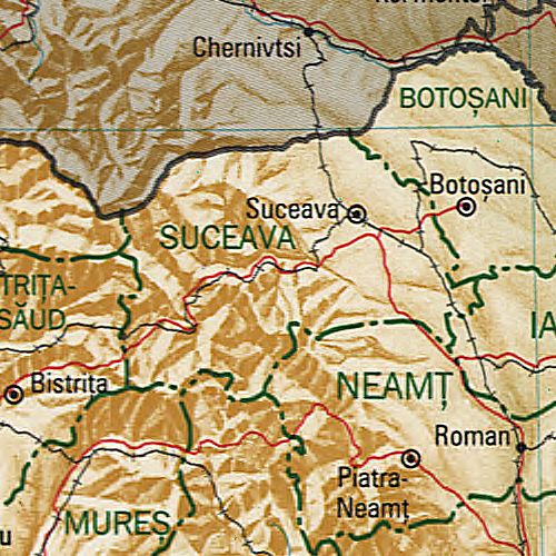 Map of Suceava County, Romania.